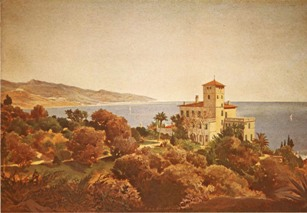 Villa Hanbury